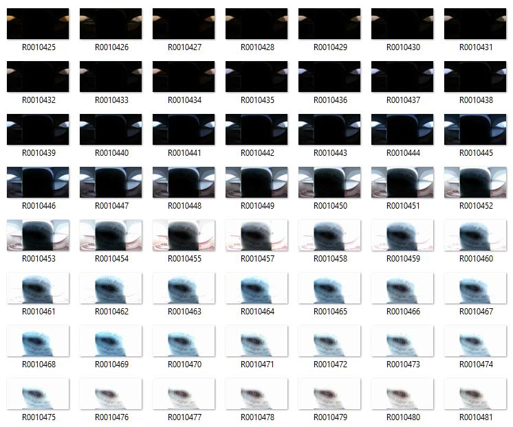 Image sequence with continuously different exposure settings. Actually, the images were taken with a 360° camera in the hours of dawn, one image per every 2 minutes.